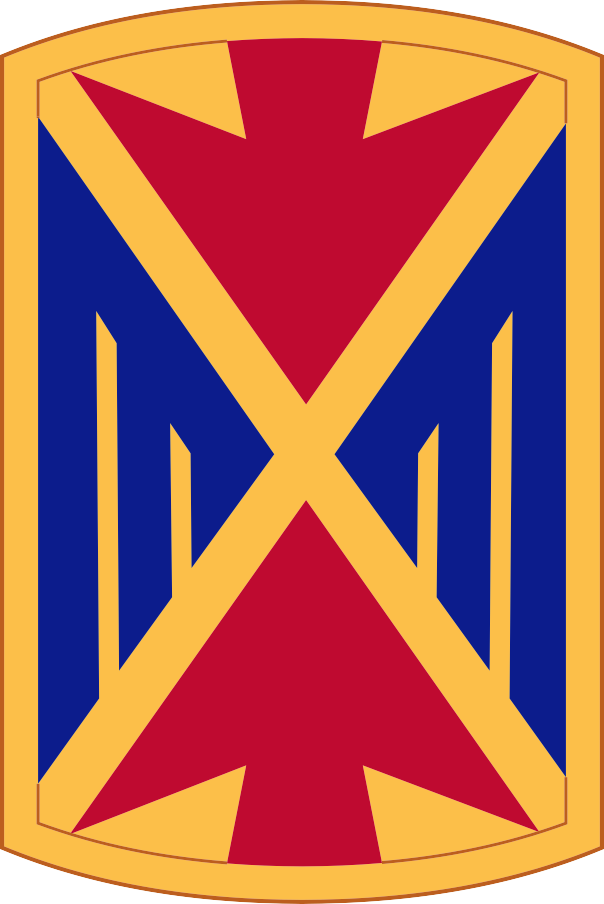 10th Army Air and Missile Defense Command coat of arms